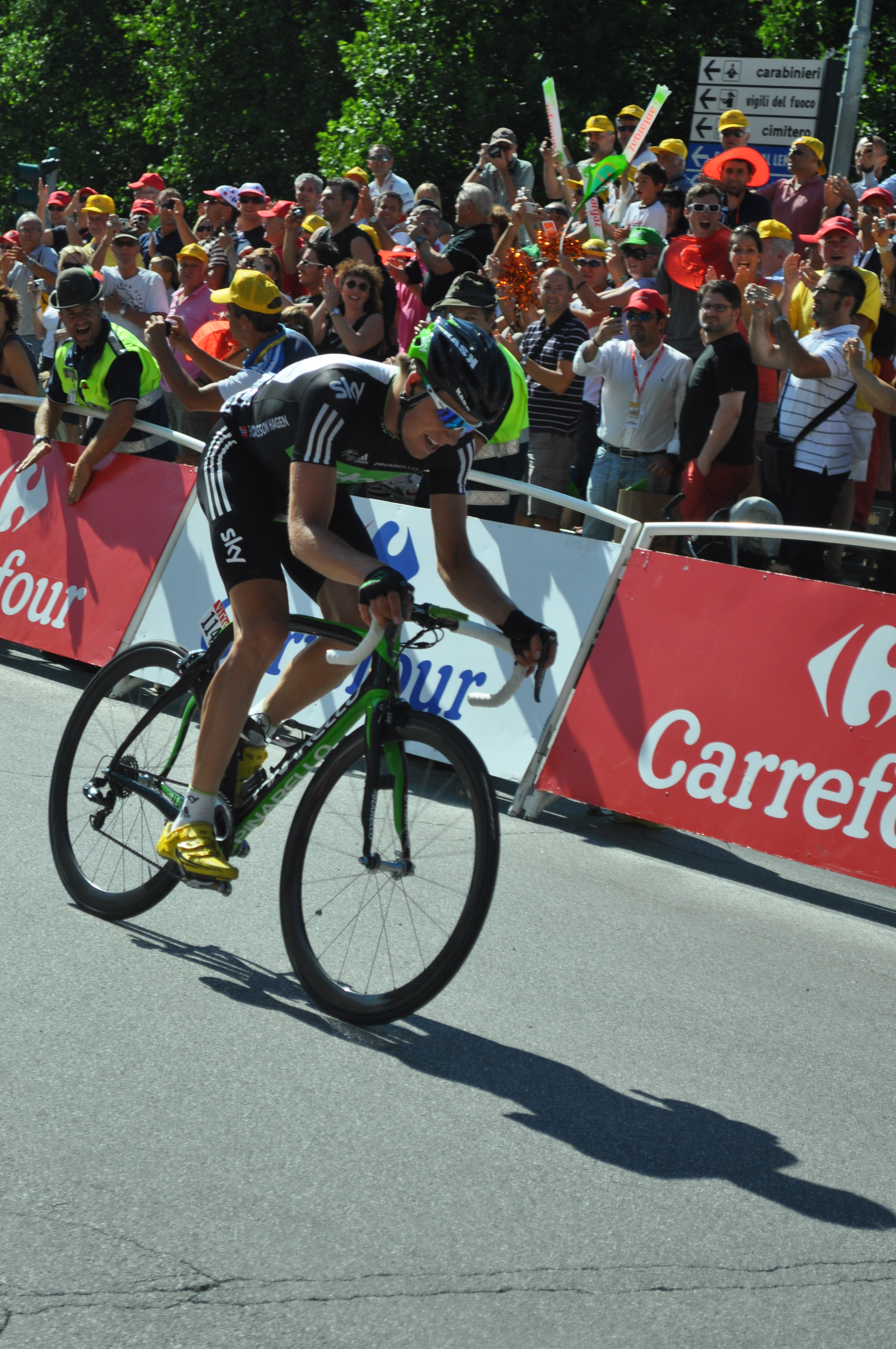 Edvald Boasson Haggen approaches the finish line of stage 17 of the 2011 Tour de France, in Pinerolo. Boasson Hagen won the stage.